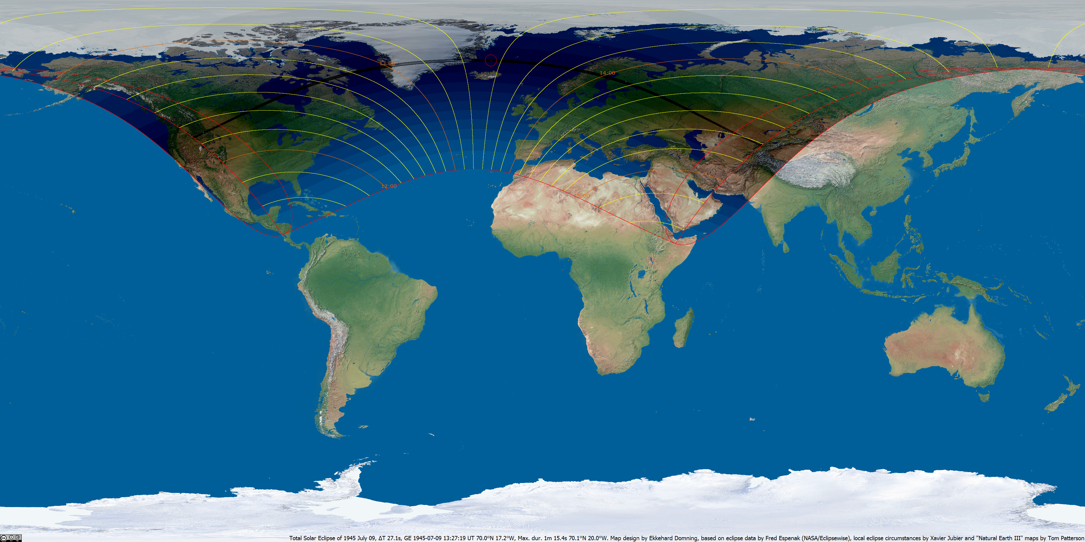 Global map of the Solar eclipse Scale 1° = 10px